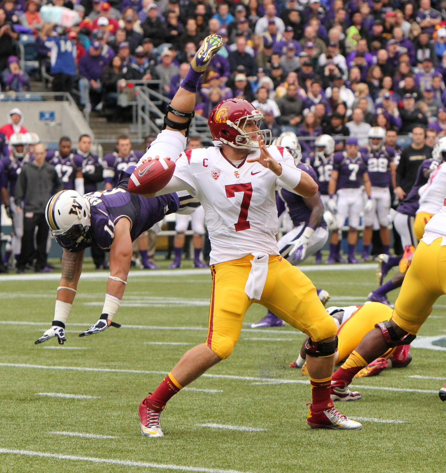 USC quarterback Matt Barkley in a game against Washington on October 13, 2012. (James Santelli/Neon Tommy)